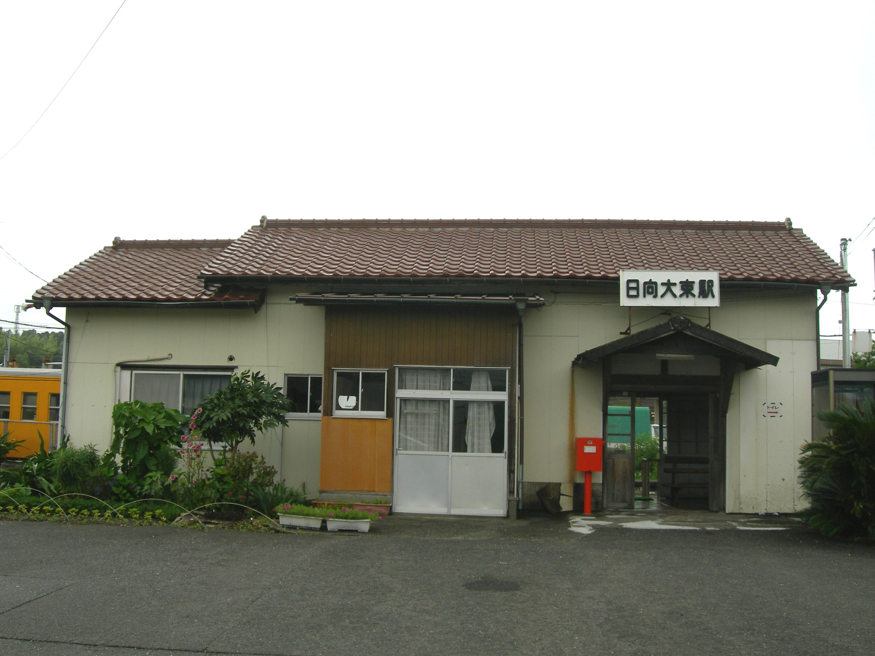 Hyuga-Otsuka Station